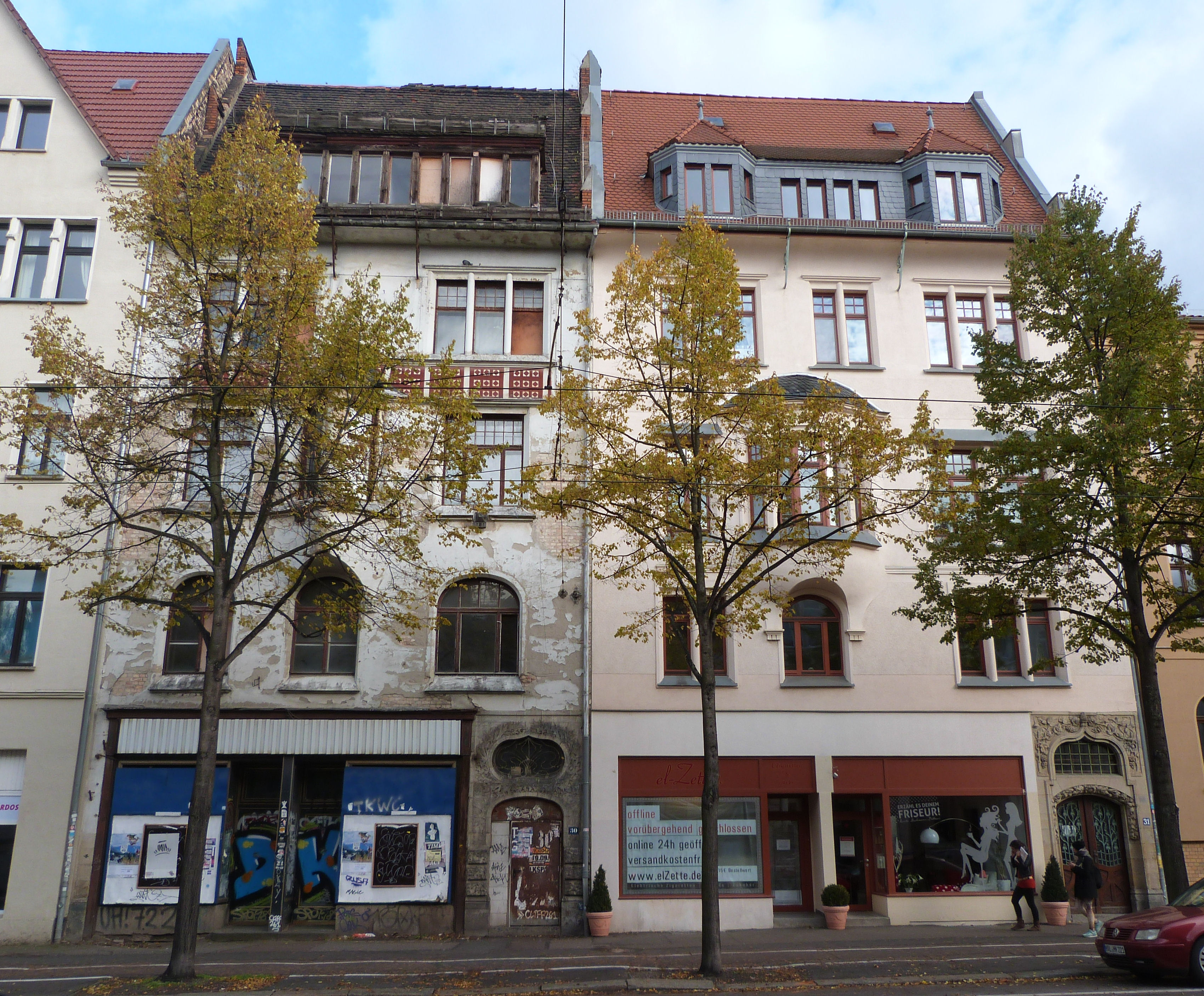 Houses No. 30 and 31, Bernburger Strasse, Halle (Saale)